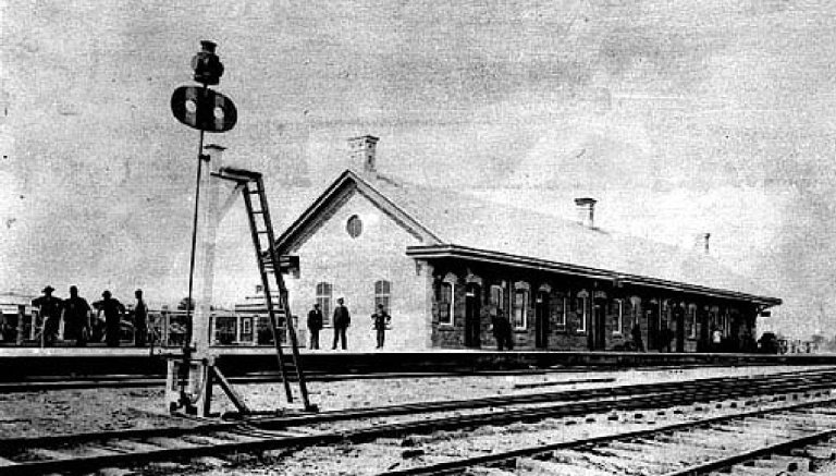 The new Union Railway Station and Depot was built here in 1872 to serve both of the rail lines which were crossing at Brockville. The new station was placed just east of Perth St. on the north side of the Grand Trunk tracks. It is still being used by VIARail for passenger service in Brockville. After 1872, the passenger trains of the Brockville & Ottawa Railway which ran north and south between Brockville and Sand Point, near Arnprior, on the Ottawa River used this station in Brockville. Previously the Grand Trunk depot was located on the south side of the tracks, at the head of Buell St. The B&O Railway depot was located in town south of Water St. near to the approach to Blockhouse Island.